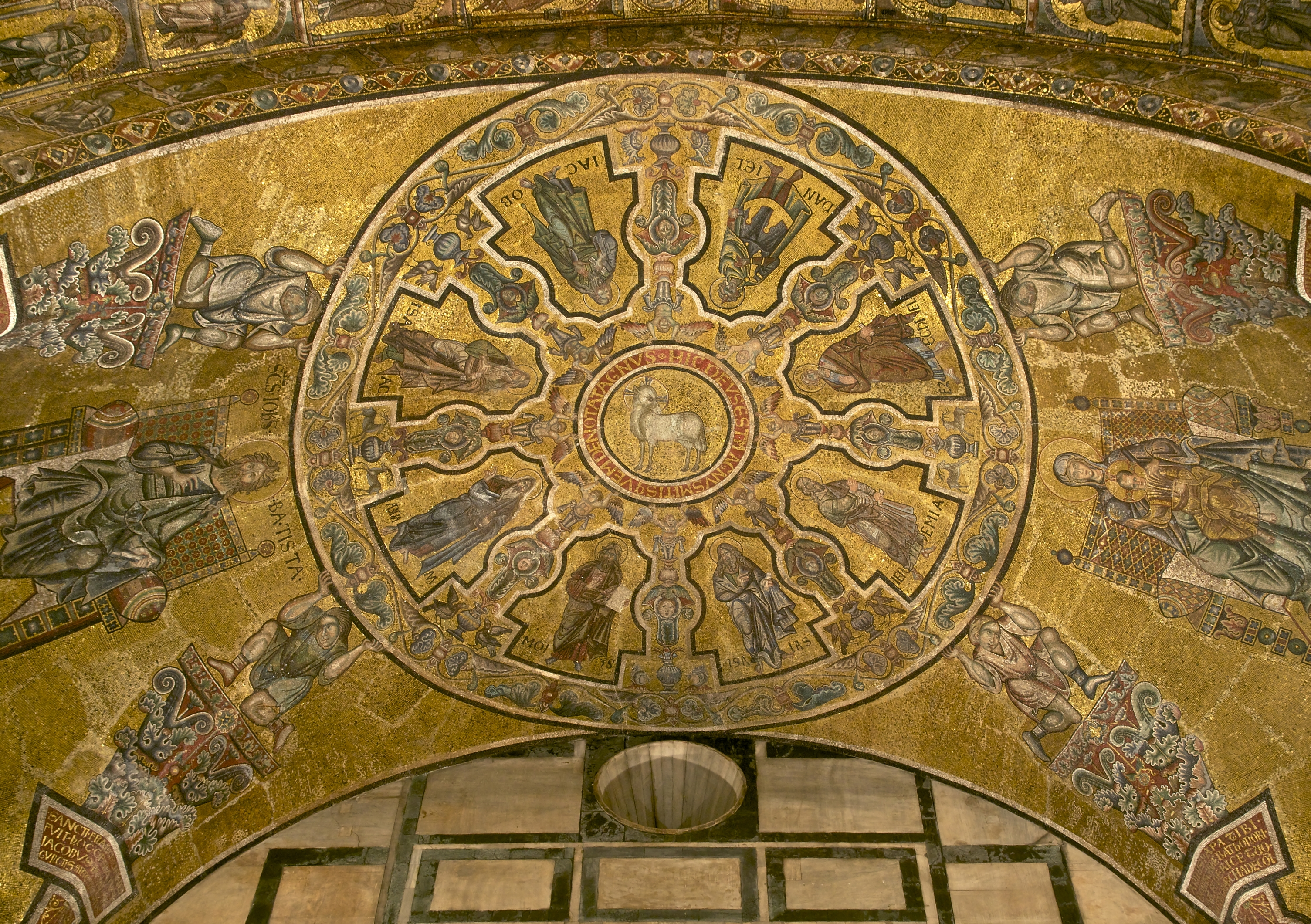 Mosaic vault showing the Lamb of God, the Patriarchs and the Prophets, above the Main Altar of the Florence Baptistery, Italy. 13th and 14th centuries.